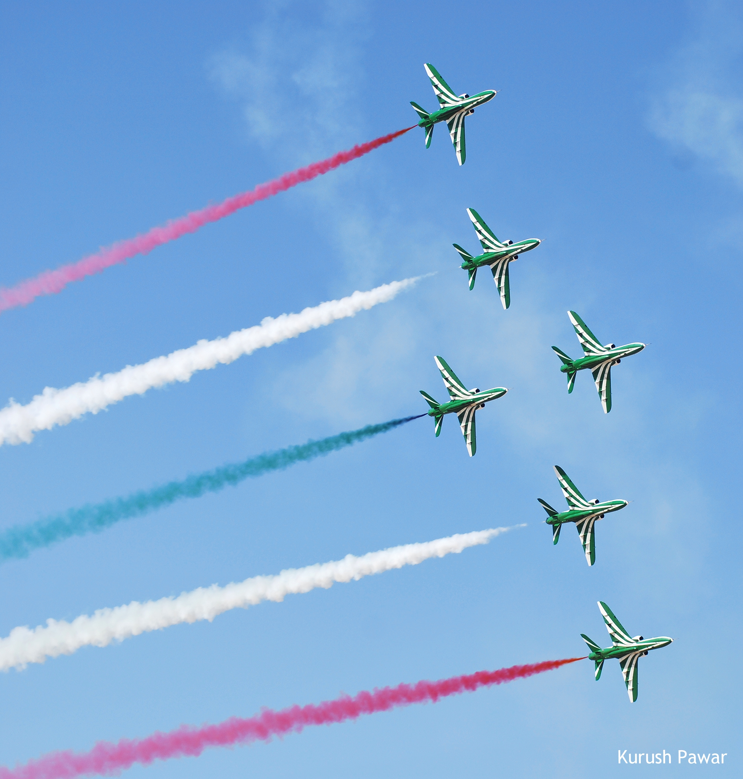 Appearing from the left of the grandstand after take off with their magnificent red, white and green smoke.